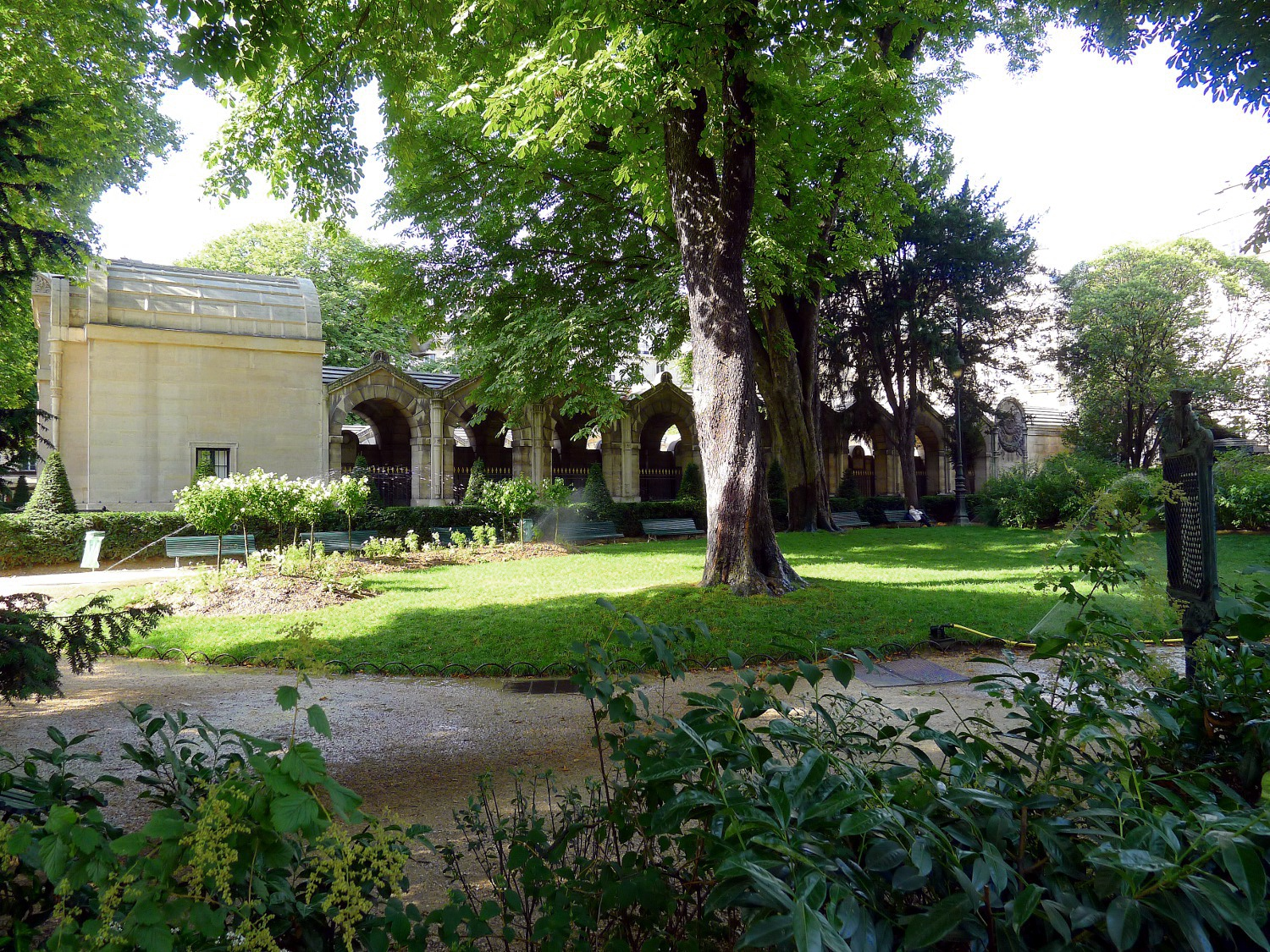 Louis XVI square - Paris